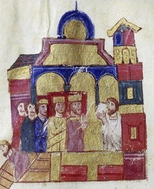 Wedding Konstantin and Zoe (Scylitzes chronicle. Folio 217.v)